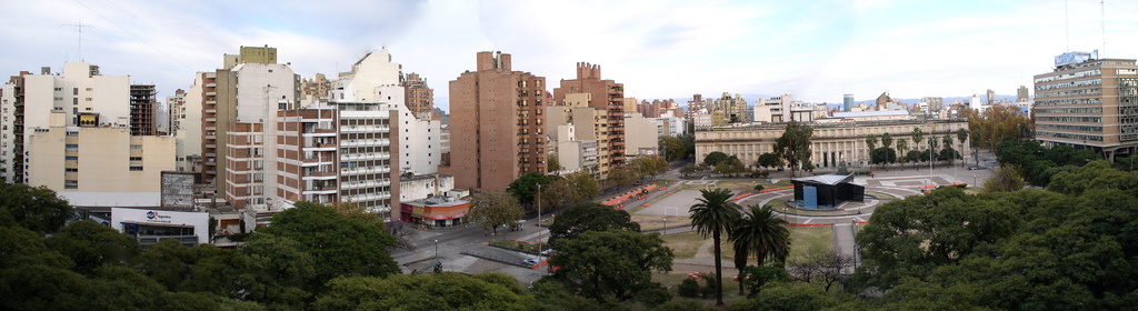 Panorama of Cordoba, Argentina, from the local's government square. Downtown area.